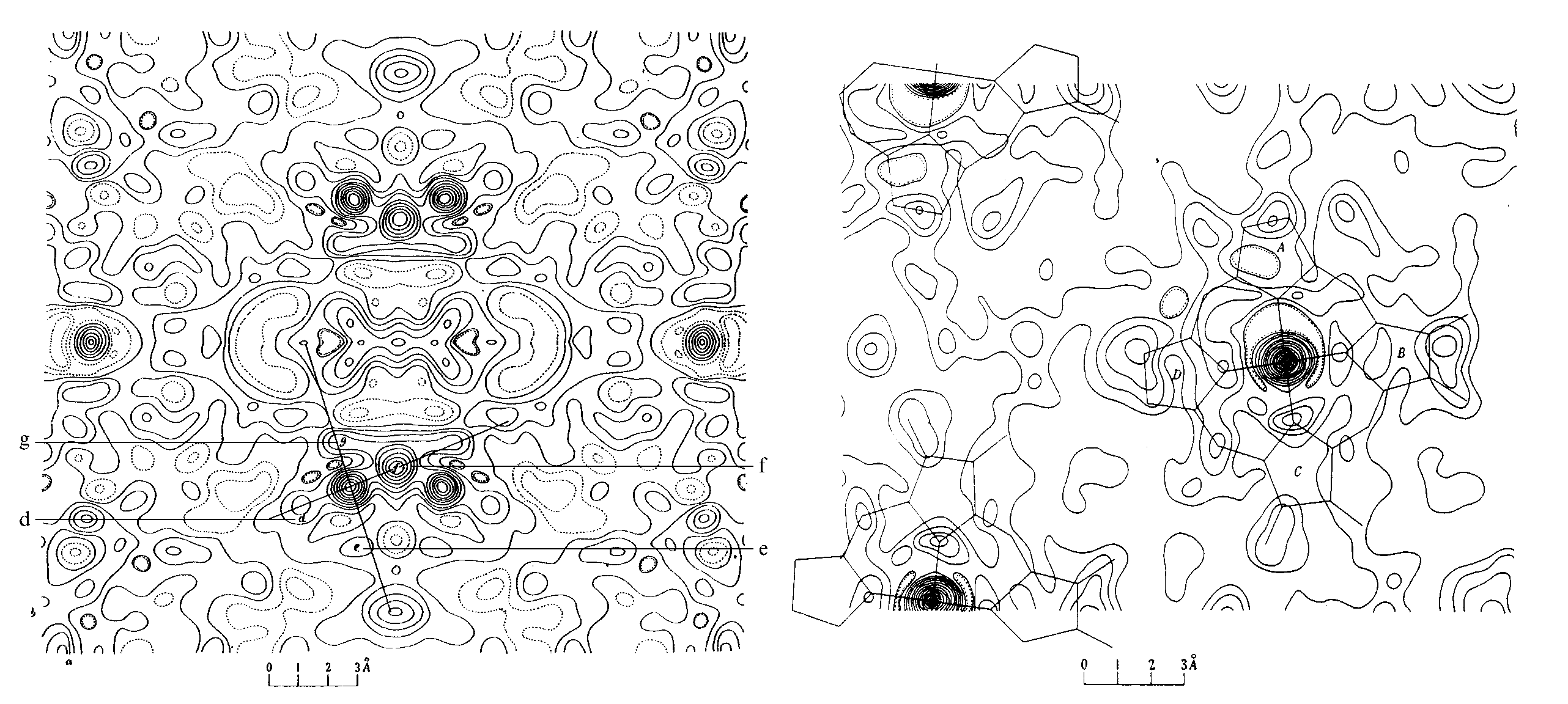 Первая карты электронной плотности структуры витамина B12. На рисунке справа угадывается порфиновое ядро, в центре которого координирован атом кобальта.